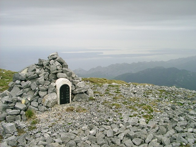 Velebit Mountains, Croatia